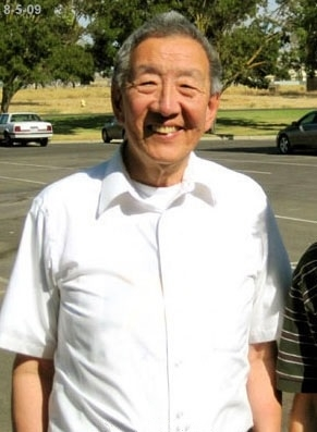 Professor Raymond Chiao, outside his UC Merced Laboratory, in August of 2009